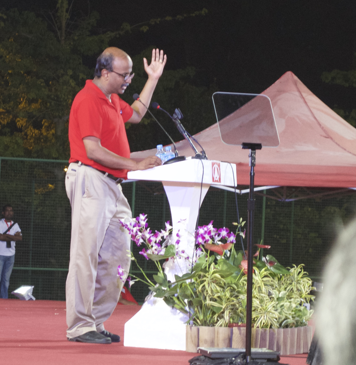 Dr. Paul Ananth Tambyah of the Singapore Democratic Party speaking at a rally held at Choa Chu Kang Stadium during the Singaporean general election, 2015.